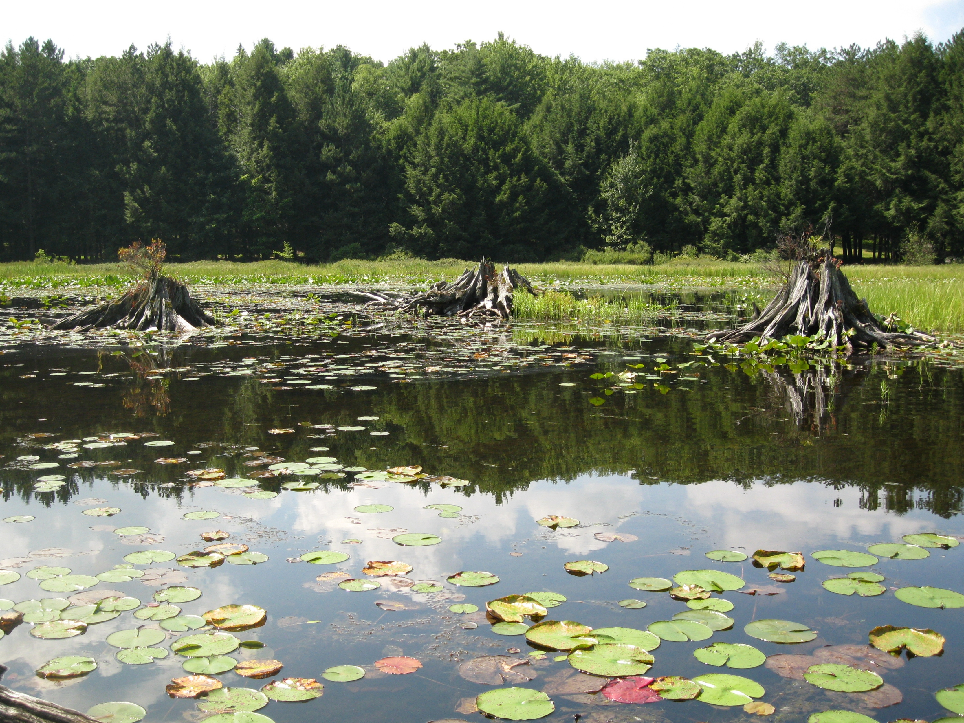 Stumps from the lumber era in the lake in Black Moshannon State Park, Rush Township, Centre County, Pennsylvania, USA (seen from a canoe).